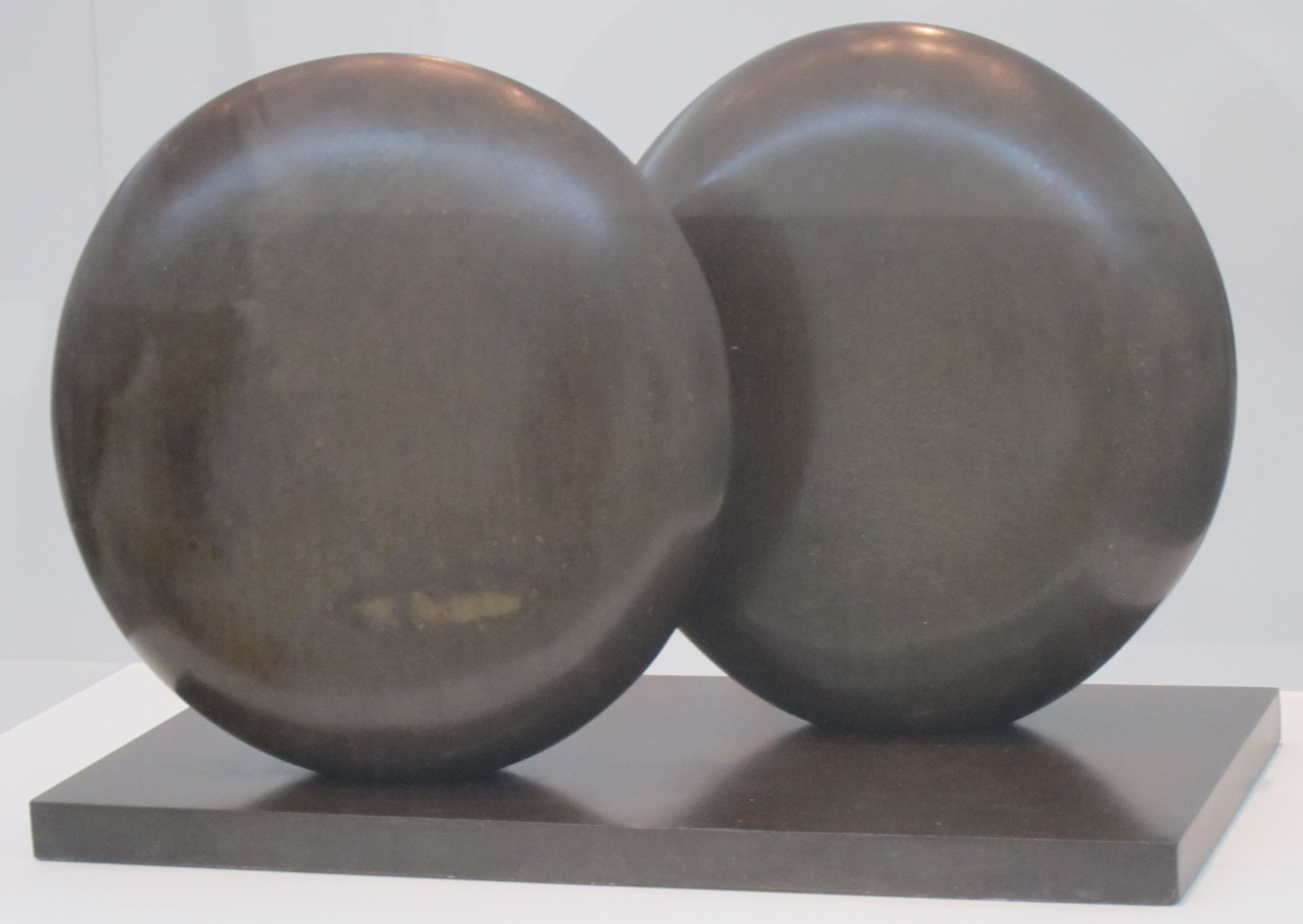 Discs in Echelon, bronze sculpture by Barbara Hepworth, 1935, cast 1959, Tate Modern